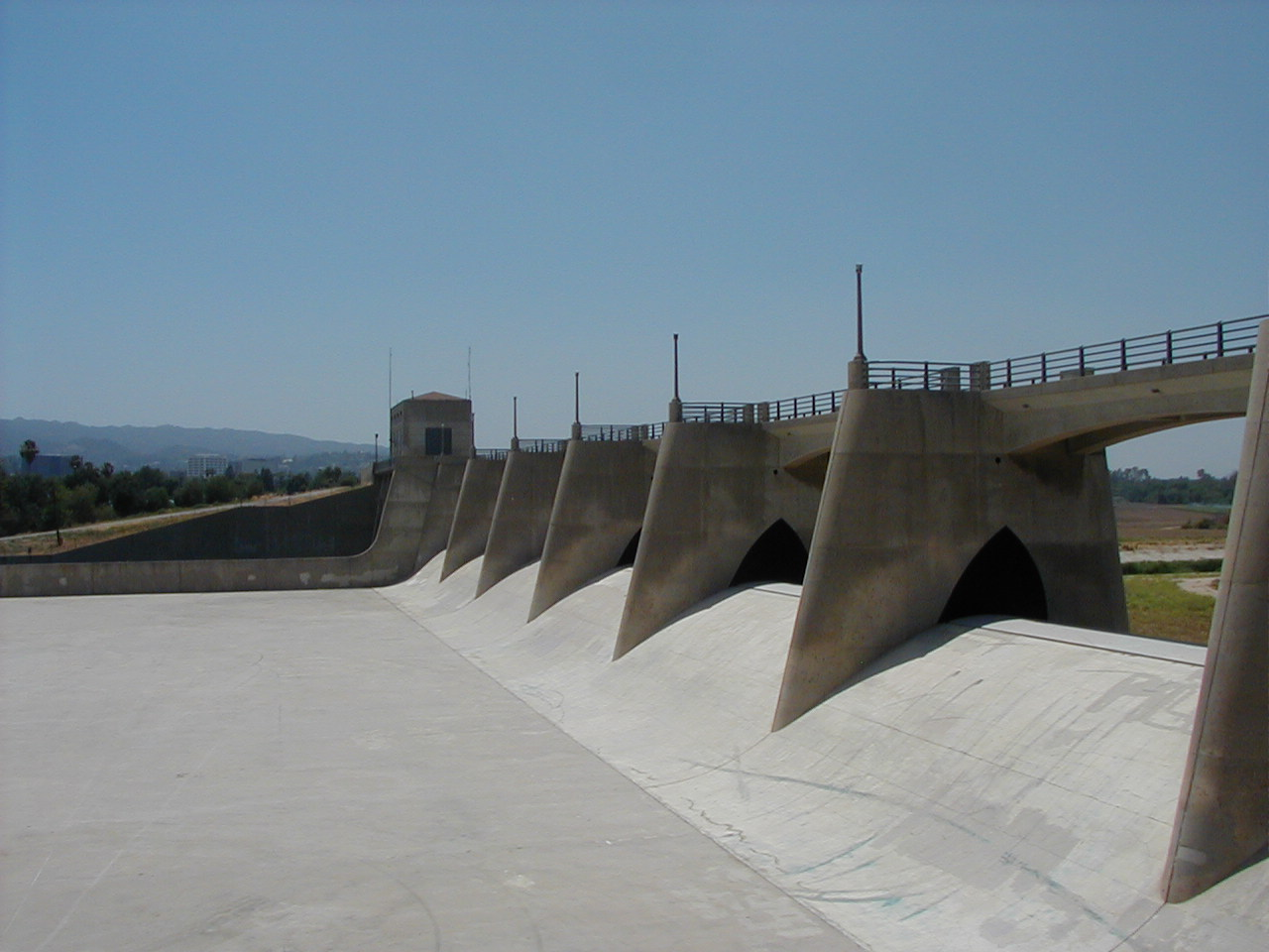 The Sepulveda Dam — on the Los Angeles River forming the Sepulveda Basin, in the San Fernando Valley, Los Angeles, California. A United States Army Corps of Engineers dam built in 1941 in for flood control. The Sepulveda Dam Recreation Area is in the usually dry basin behind the dam.